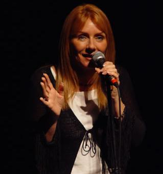 Frances Black in concert